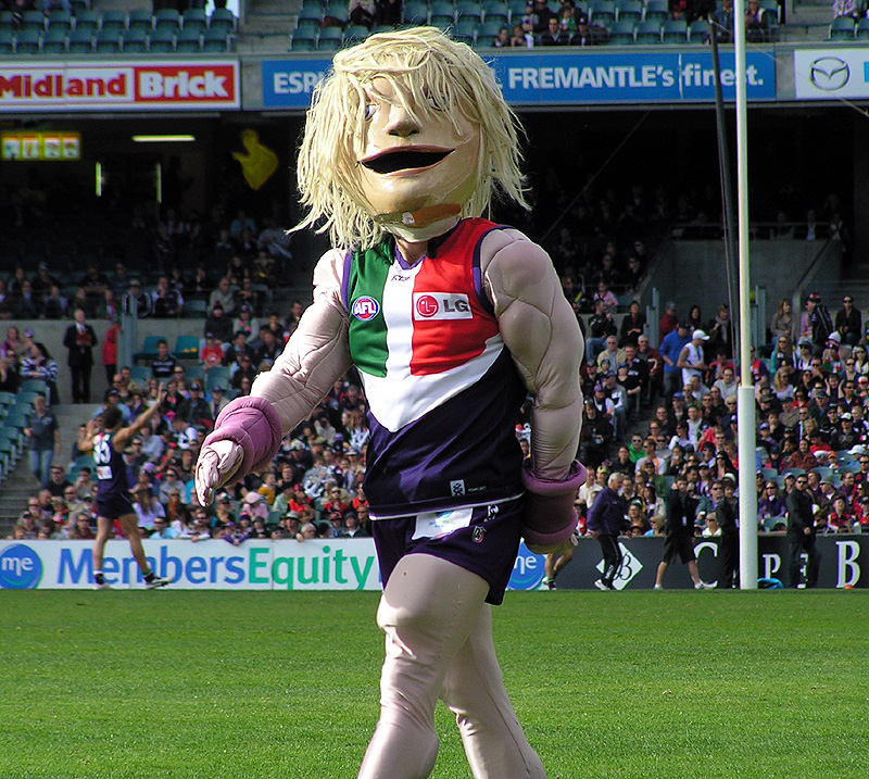 Johnny "The Doc" Docker, official mascot of the Fremantlte Football Club.